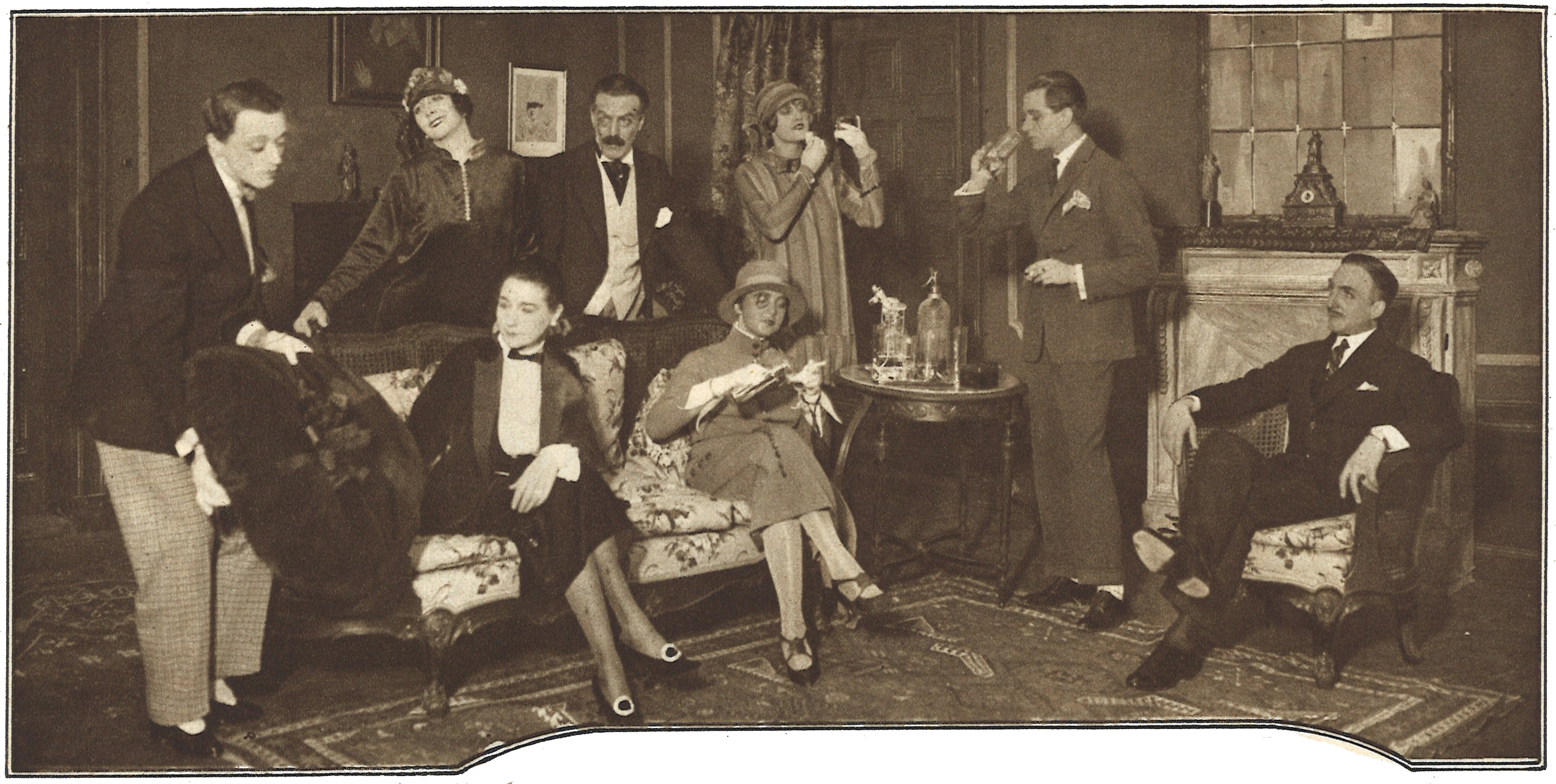 Scene from Frederick Lonsdale's play "Spring Cleaning" as performed at the Royal Dramatic Theatre in Stockholm in 1925.